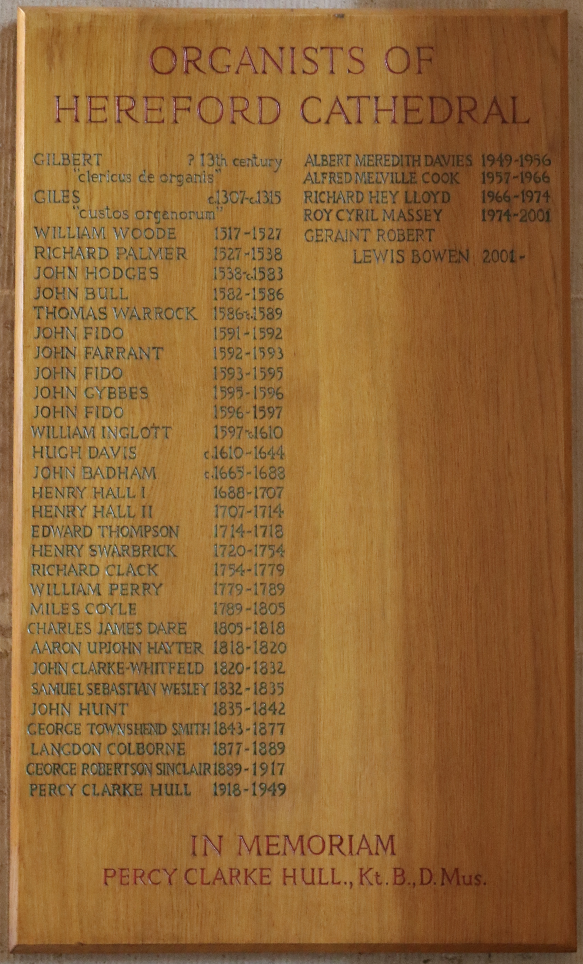 A plaque inside Hereford Cathedral.